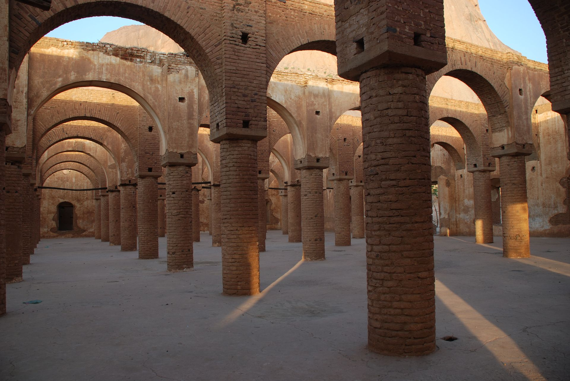 Sidi Hasan mosque, Khatmiyya tariqa, Kassala, Sudan. Roofless masonry arches and columns.